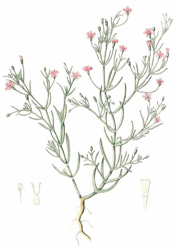 Illustration of Gypsophila serotina Hayne [=Gypsophila muralis L.]